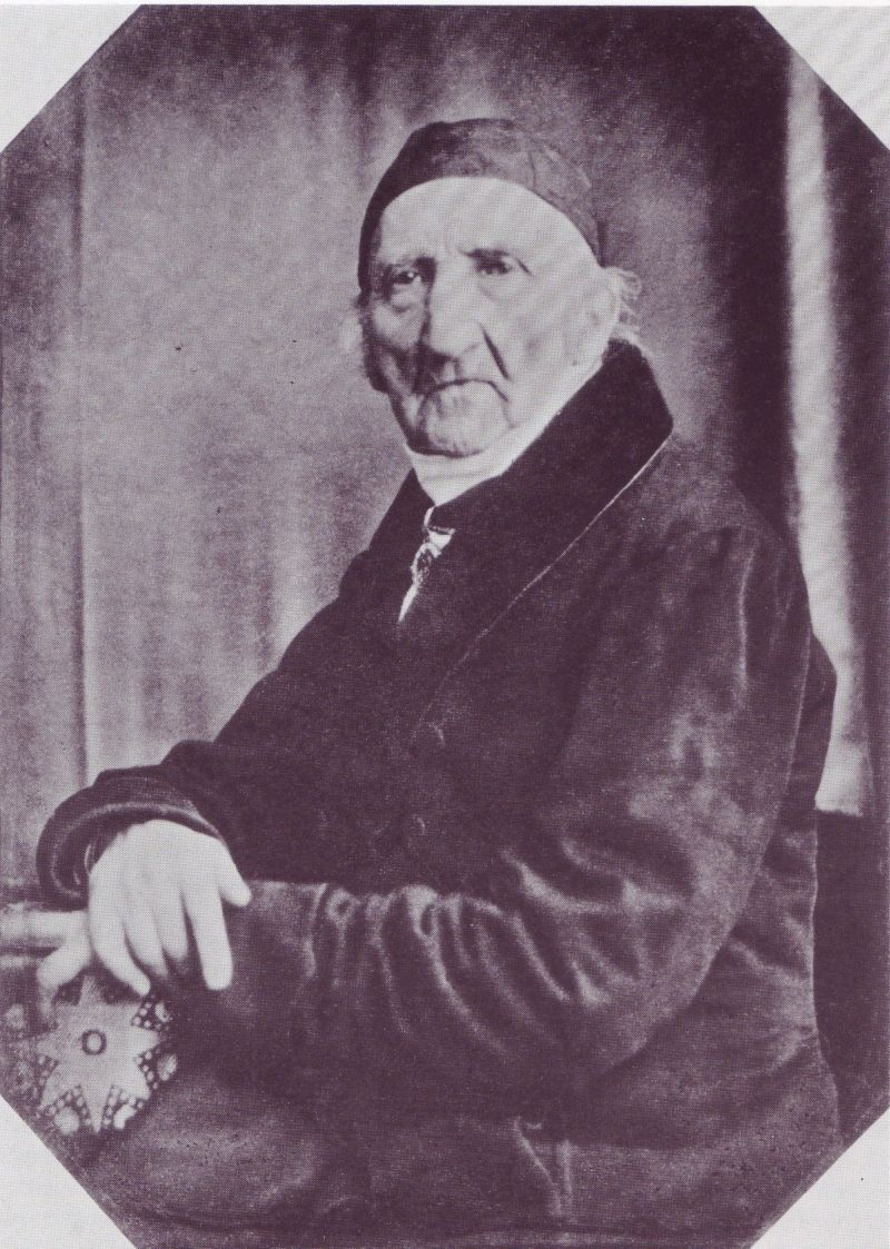 Johann Gottfried Schadow in 1849, Daguerreotype